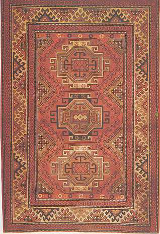 Armenian rug from Ijevan. XIX century, 110x180 cm